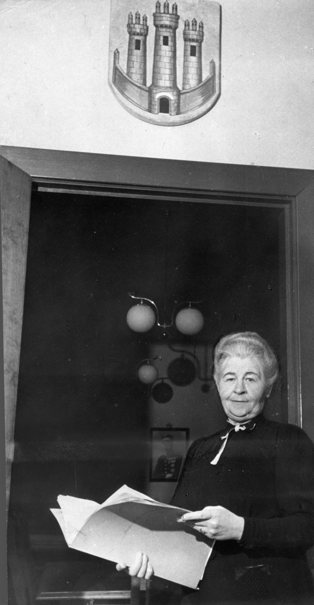 Photograph of Eva Madsen (1884-1972) after being elected as mayor of Stege, Denmark, in 1950. Madsen was the first female mayor in Denmark.